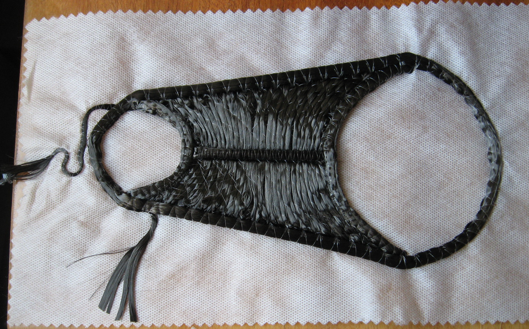 Embroidered composite reinforcement made of carbon fibres